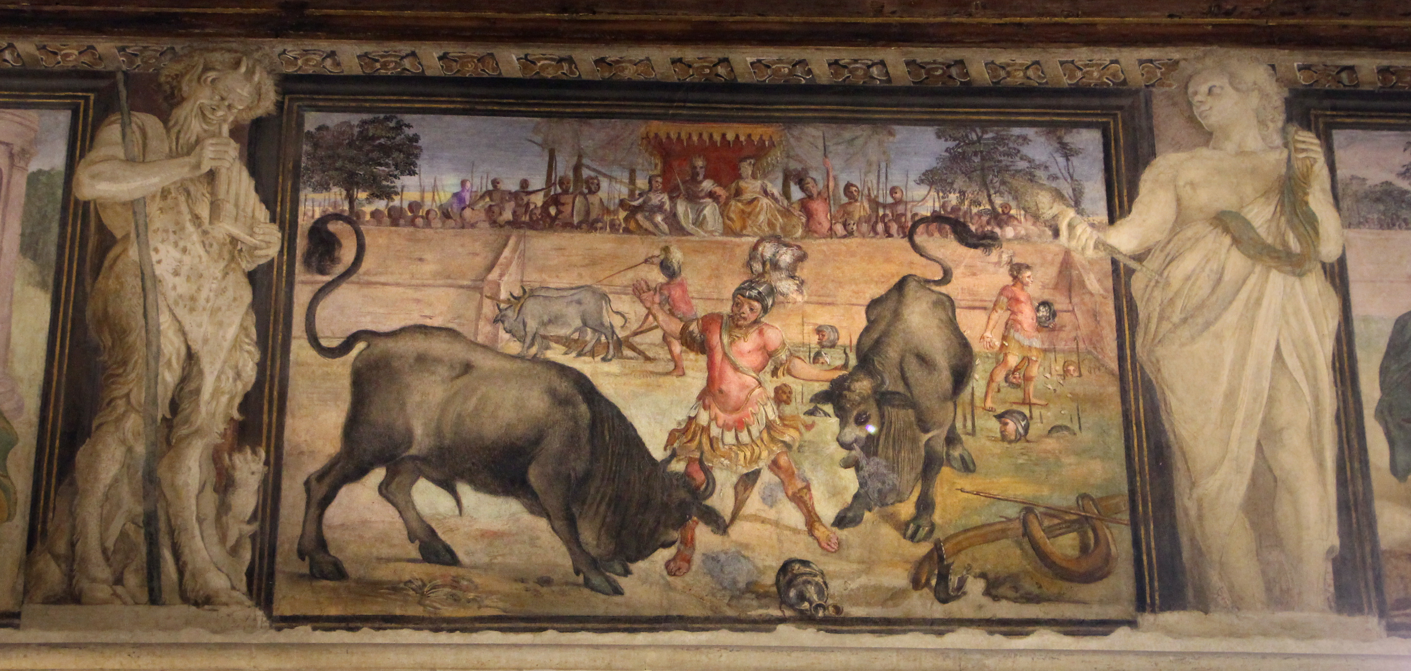 Frieze of Jason and Medea